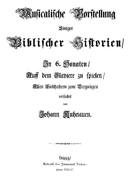 Title page of the first edition of Musicalische Vorstellung einiger biblischer Historien by Johann Kuhnau.